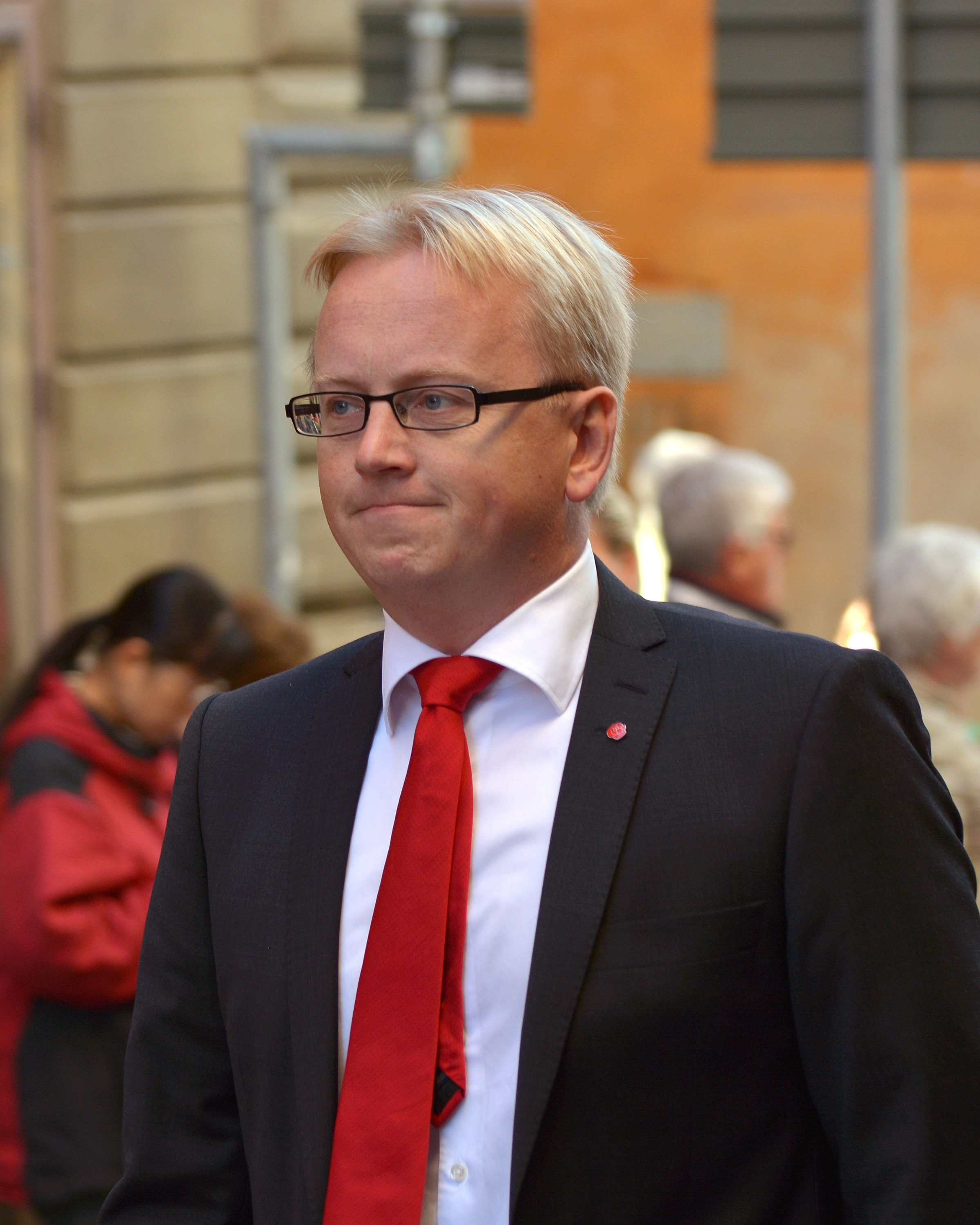 Fredrik Olovsson, member of the Riksdag for the Social Democratic Party.